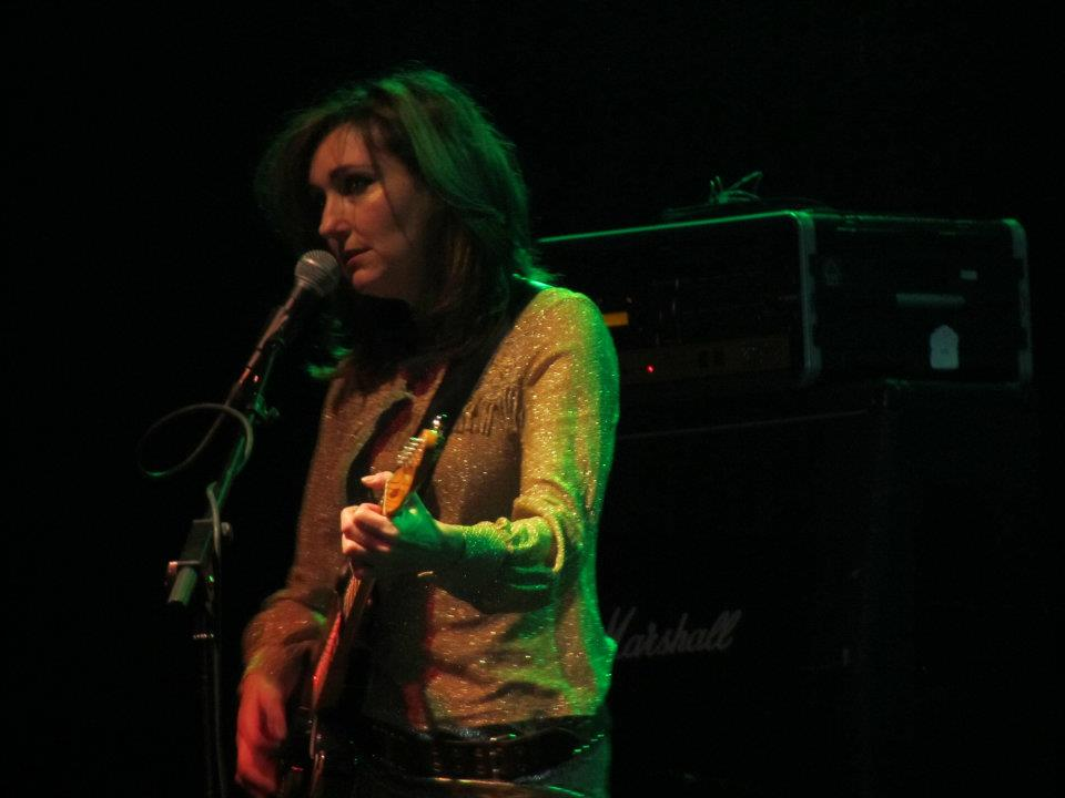 Viv Albertine At the O2 Arena in Bristol, England November 2011.